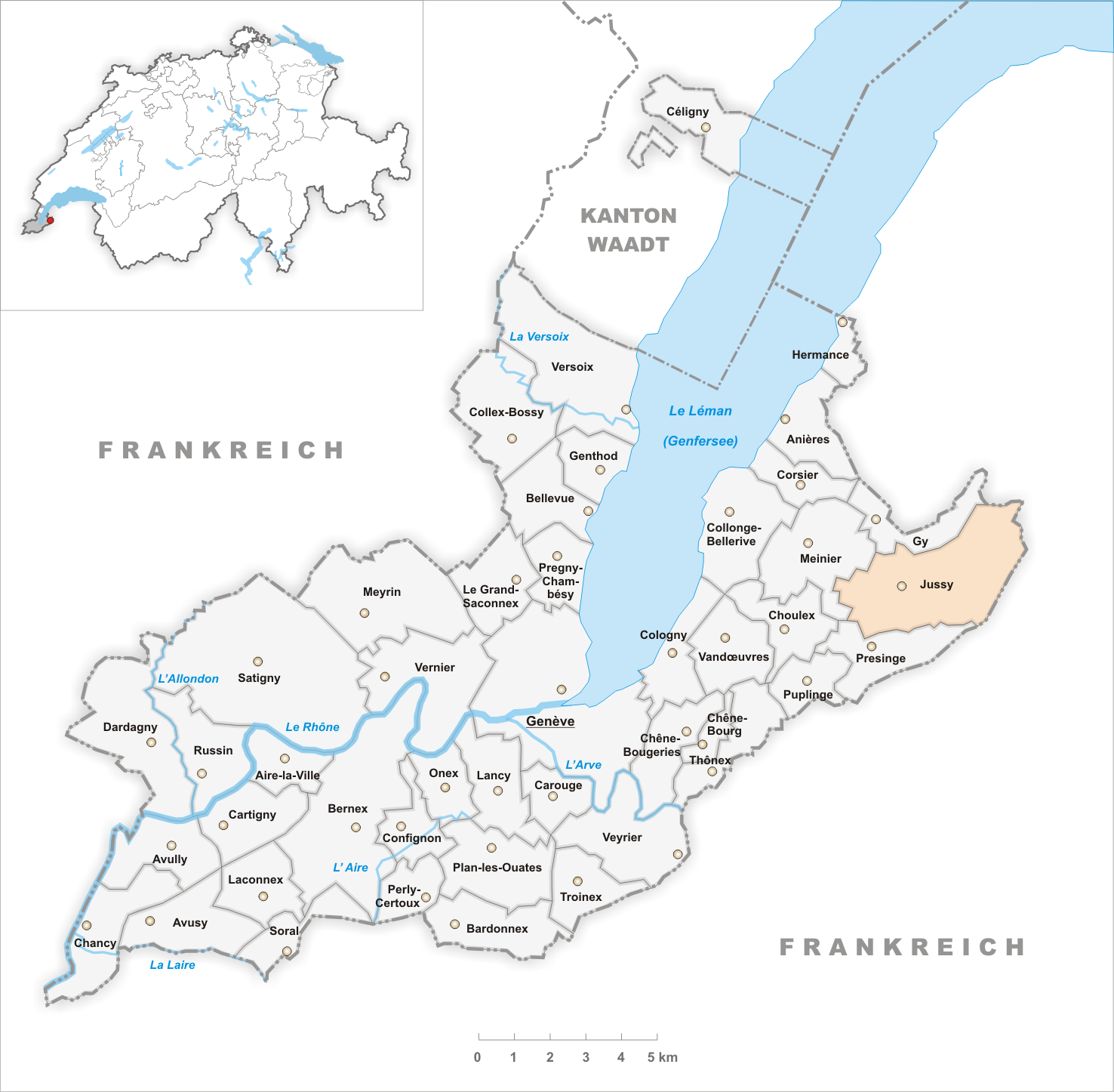 Municipality Jussy